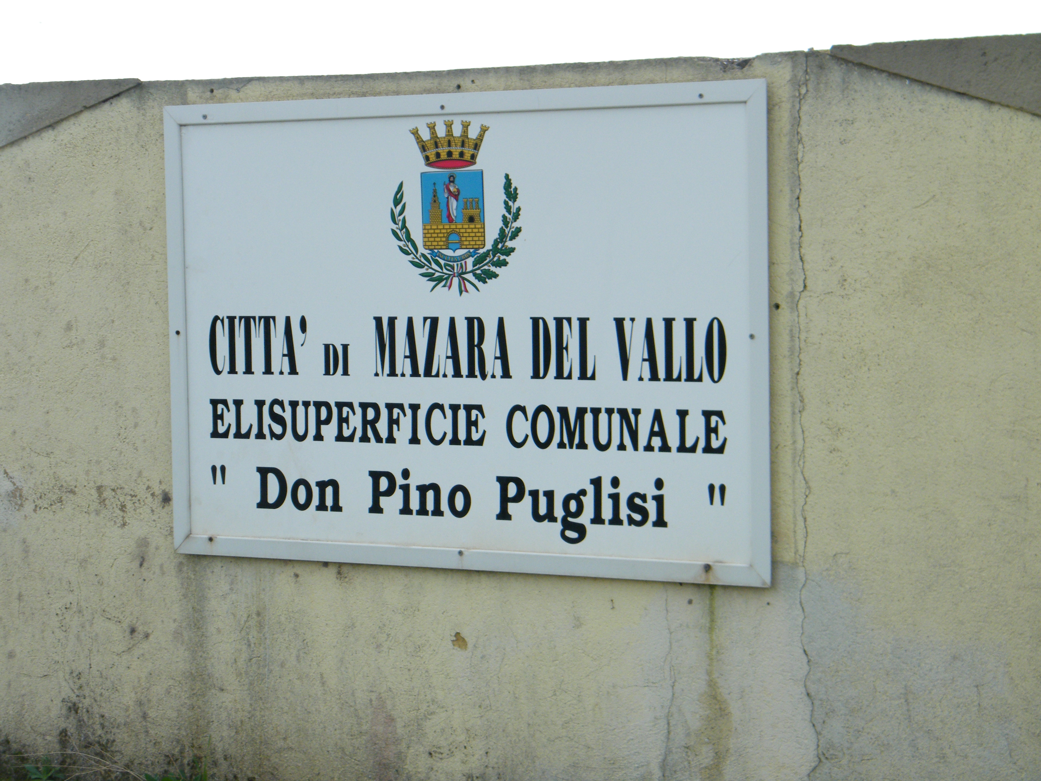 Local helipad entrance sign in Mazara del Vallo